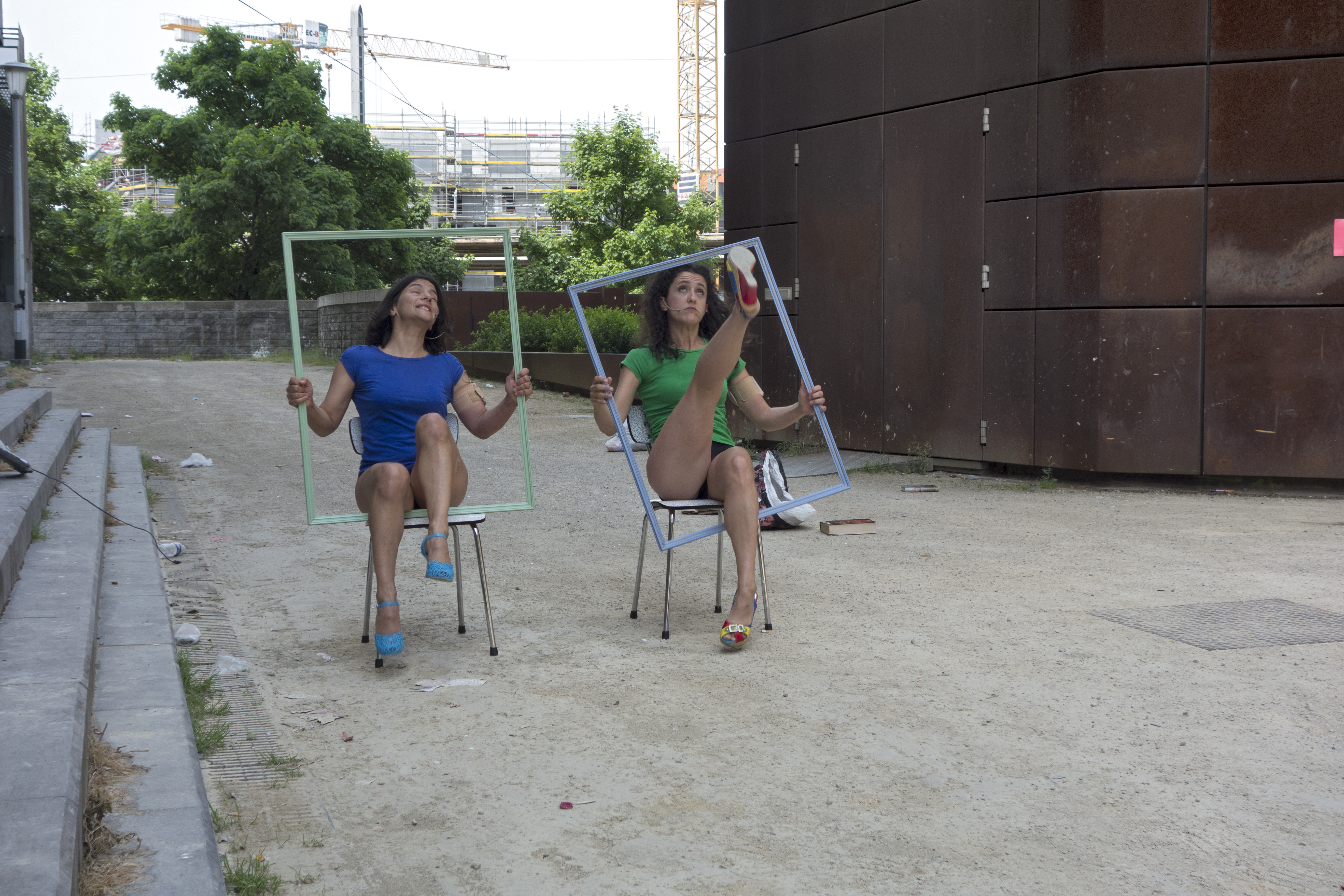 Performance of 'I'm Happy to Seperate my Legs' within the framework of the project 'In Search for Akarova' at Akarovaplein / Place Akarova, Brussel / Bruxelles. Choreographers: Johanne Saunier, Ine Claes. Text: Martin Crimp. Performers: Johanne Saunier (left), Ine Claes (right).